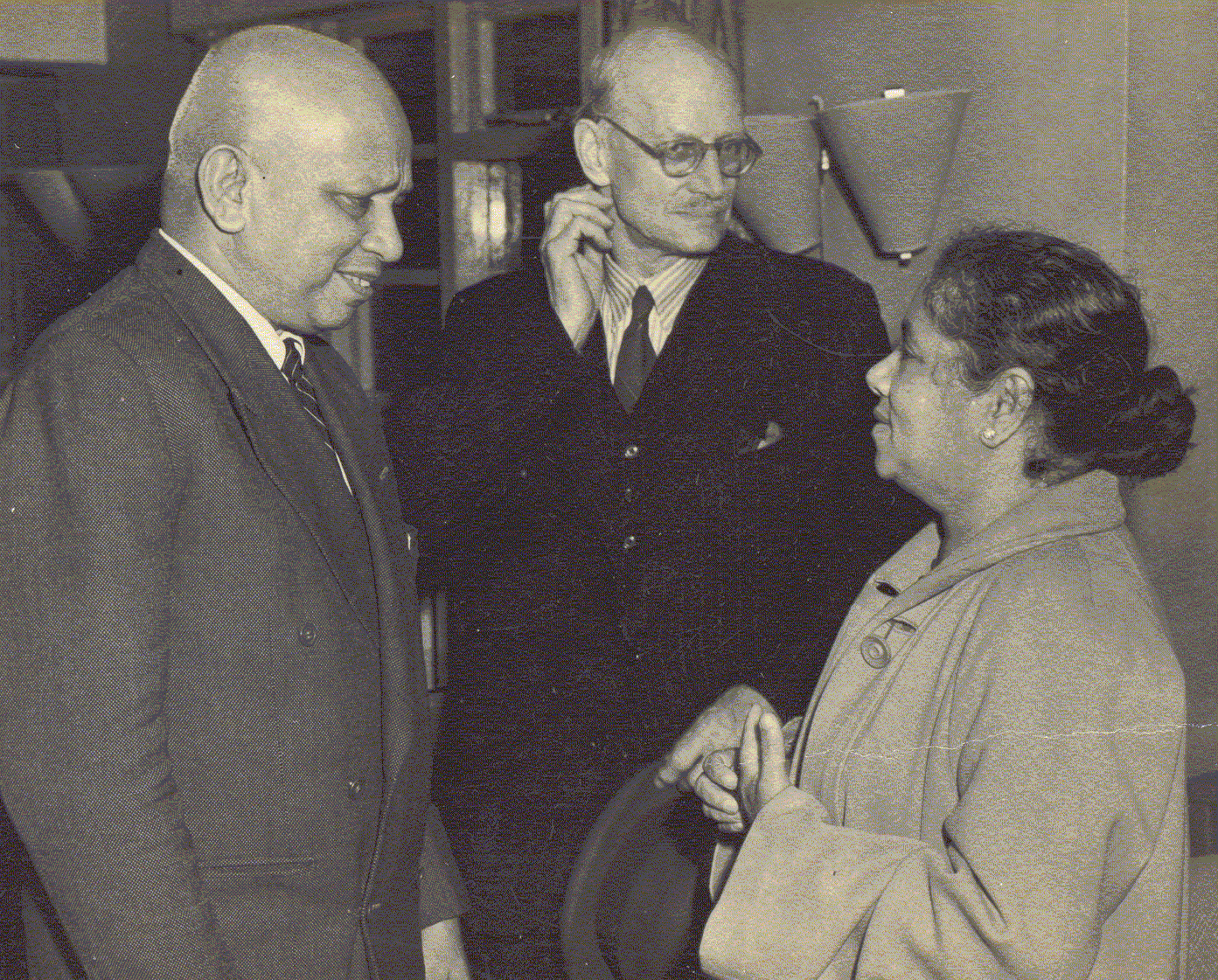 Photo of Lady Leela Wijeyeratne with Sir Oliver Goonetilleke. This photo is solely owned by the Wijeyeratne family & have given me the copy rights. If you need any clarification you may contact this address.